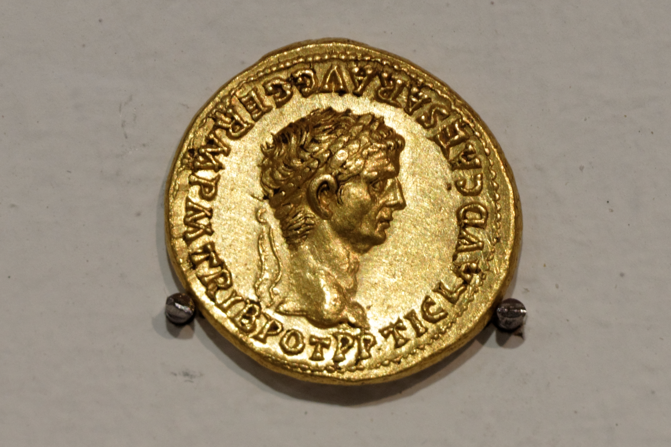 Aureus of Claudius, from Lugdunum mint, after 50 DC. 7.70 g. Museum of Beaux-Arts de Lyon